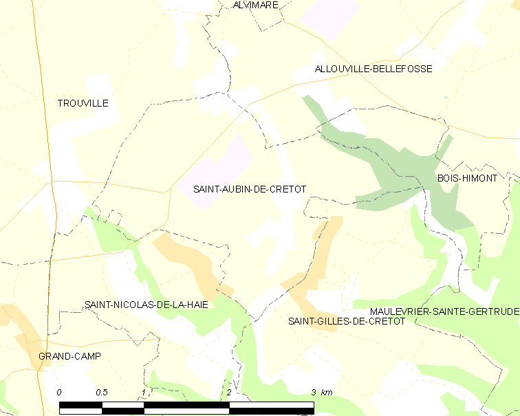 Map of French municipality Saint-Aubin-de-Crétot